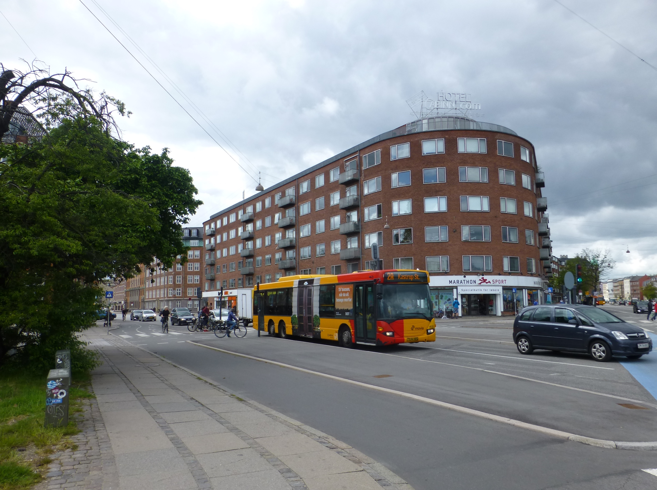 Movia bus line 2A on Rosenørns Alle at Åboulevard in Copenhagen.